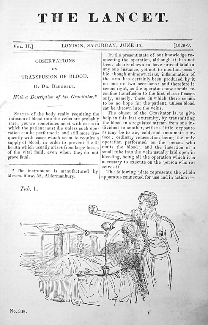 June 13, 1829 issue of The Lancet. The author of this article is James Blundell. Features what is known as "Blundell's Gravitator".